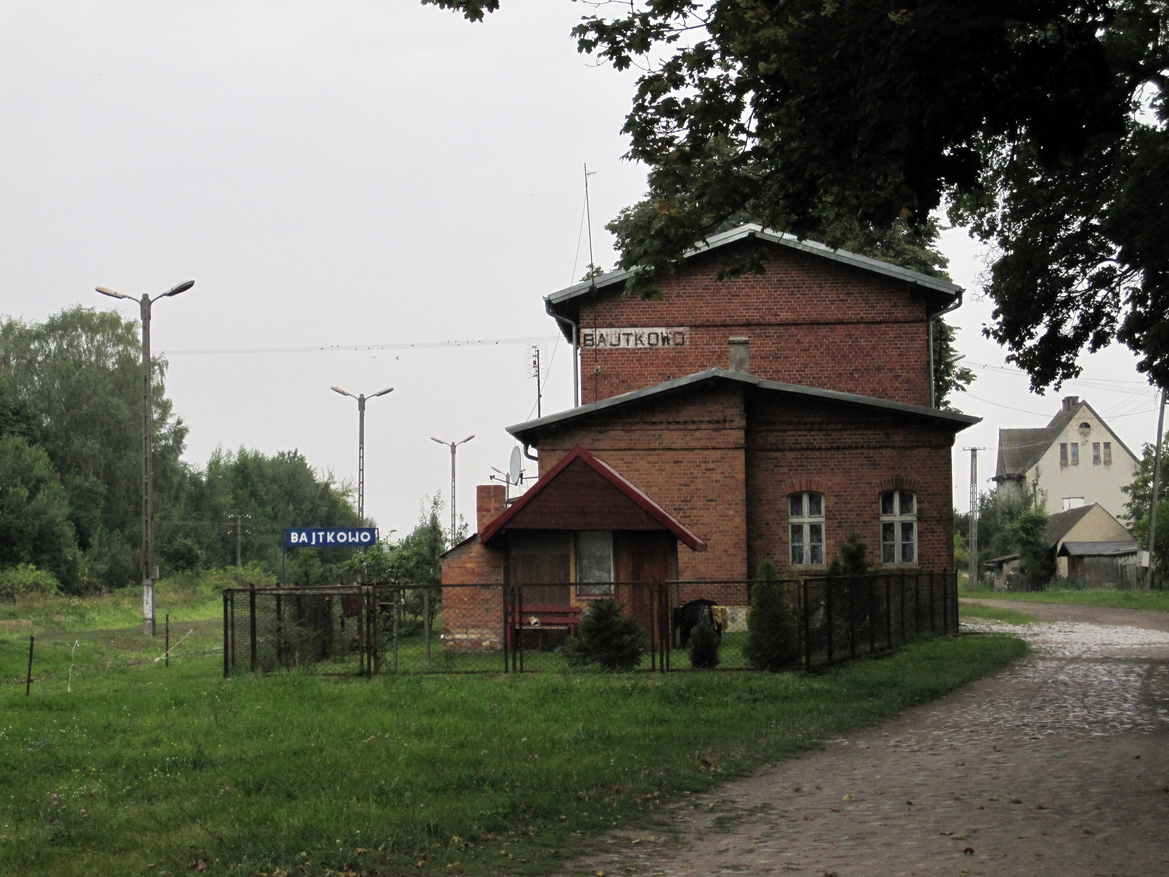 Bajtkowo - train station